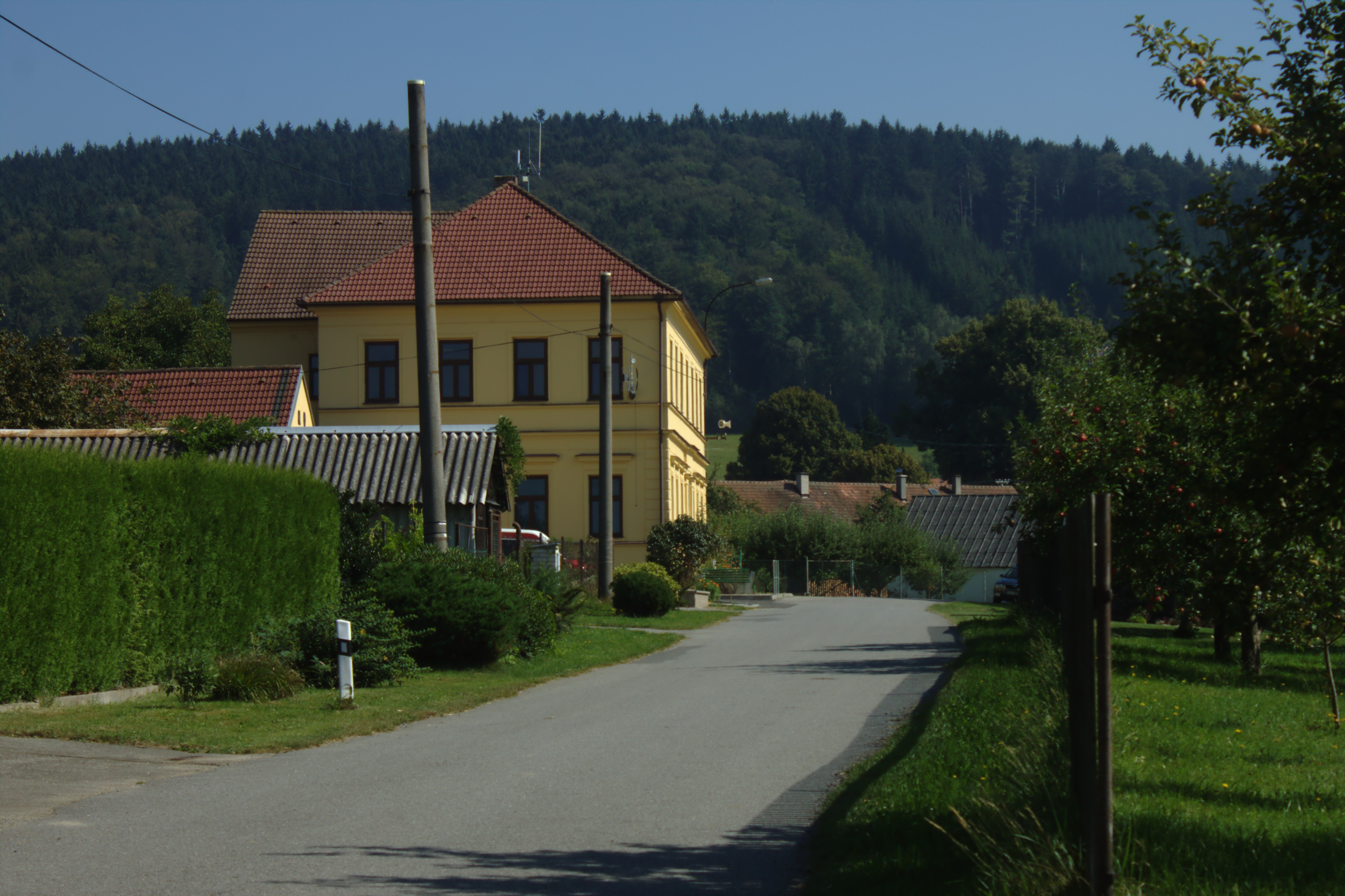 Former school building in the village of Chotčiny in South Bohemian Region, CZ